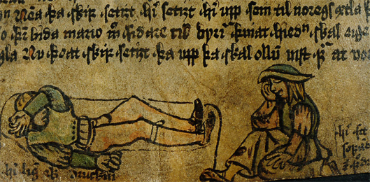 Illumination from AM 147 4to of two intoxicated 15th century Icelanders